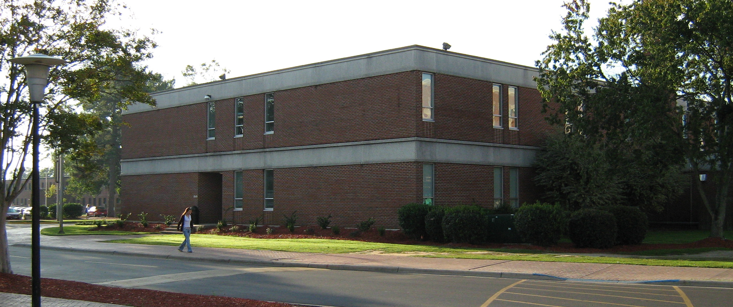 School of Business building - Side entrance facing north - University of North Carolina at Pembroke